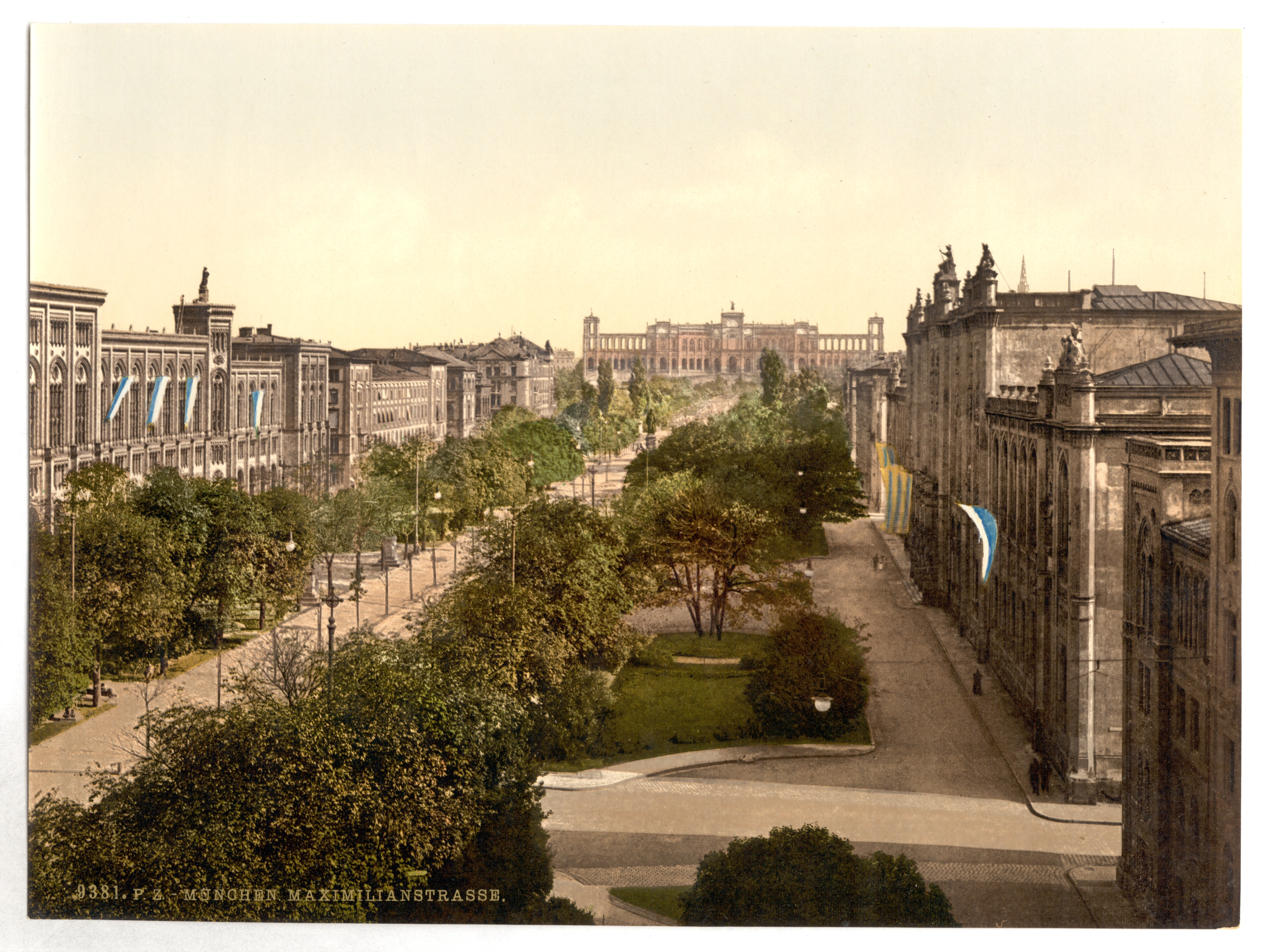 Title from the Detroit Publishing Co., catalogue J-foreign section. Detroit, Mich. : Detroit Photographic Company, 1905.; Forms part of: Views of Germany in the Photochrom print collection.; Print no. "9381".